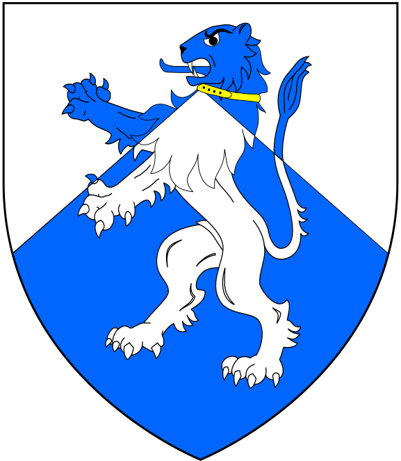 Arms of Giles of Bowden in the parish of Yealmpton, Devon; of Dean Court, Dean Prior; Sharpham, Ashprington: Per chevron argent and azure, a lion rampant counterchanged collared or (Vivian, Lt.Col. J.L., (Ed.) The Visitations of the County of Devon: Comprising the Heralds' Visitations of 1531, 1564 & 1620, Exeter, 1895, p.409)